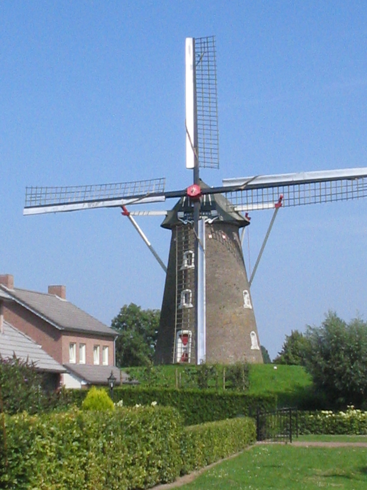 Windmill Zeldenrust at village Lith (Netherlands), august 2005